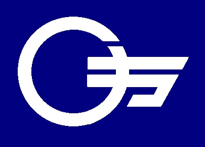 Flag of Naka Ibaraki